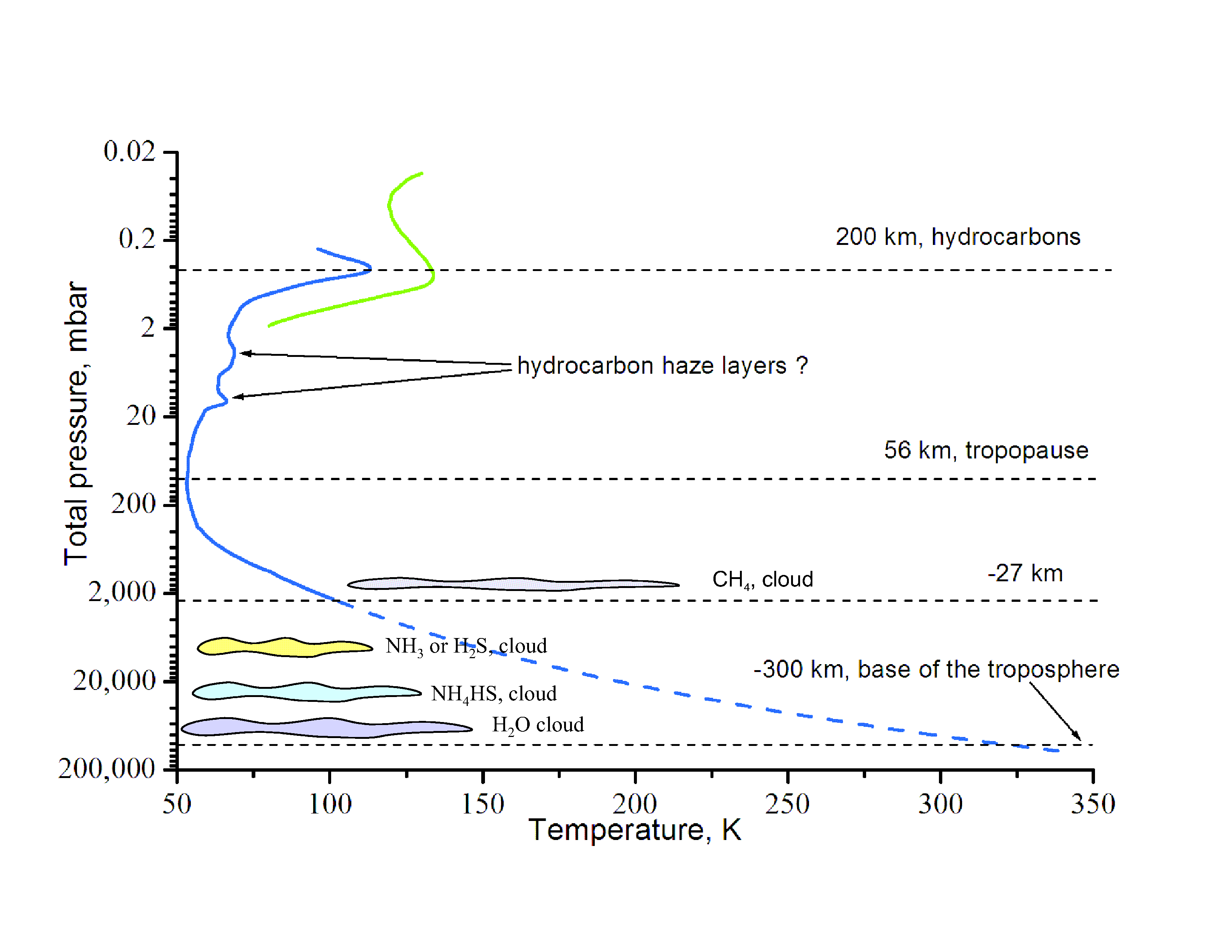 This graph shows temperature profile in the troposphere and in the lower stratosphere of Uranus. Heights are also indicated. The blue curve is from Lindal et al.[1]. The green curve is from Bishop et al.[2] The dashed blue curve is an extrapolation of the 1987 Lindal et al. data[1] using a constant lapse rate of 0.82 K/km. The graph also shows locations of the main cloud and haze layers according to 1990 Bishop et al.[2], Atreya et al.[3] and dePater et al. [4] References ↑ a b Lindal, G.F., Lyons, J.R., Sweetnam, D.N., Eshleman, V.R., Hinson, D.P., Tyler, G.L., 1987. The atmosphere of Uranus: Results of radio occultation measurements with Voyager 2. J. Geophys. Res. 92, 14987â€“15001 (Table 1); ↑ a b Bishop, J.; Atreya, S.K.; Herbert, F.; and Romani, P. (1990). "Reanalysis of Voyager 2 UVS Occultations at Uranus: Hydrocarbon Mixing Ratios in the Equatorial Stratosphere", Icarus 88: 448â€“463 (Table 1). ↑ Atreya, S.; Egeler, P.; Baines, K. (2006). "Water-ammonia ionic ocean on Uranus and Neptune?", Geophysical Research Abstracts 8: 05179 ↑ dePater, Imke; Romani, Paul N.; Atreya, Sushil K. (1991). "Possible Microwave Absorbtion in by H2S gas Uranusâ€™ and Neptuneâ€™s Atmospheres", Icarus 91: 220â€“233.